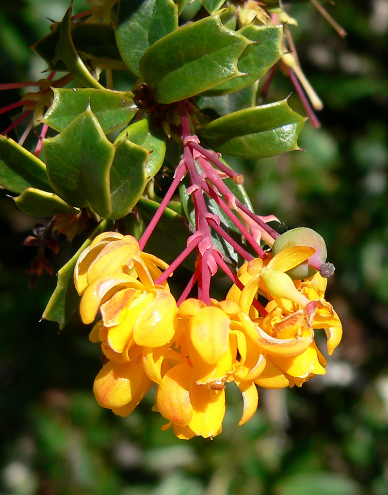 Berberis darwinii at the University of California Botanical Garden, Berkeley, California